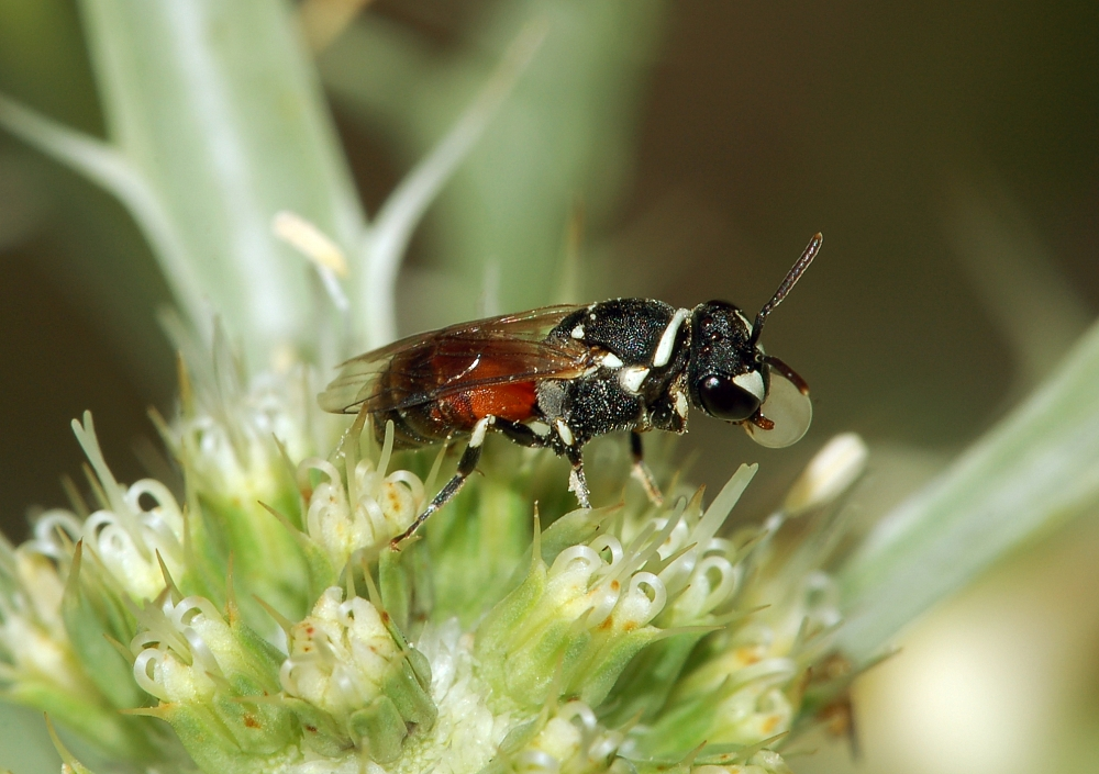 A Membrane bee at Schwanheim Dune, Frankfurt/Main, Germany